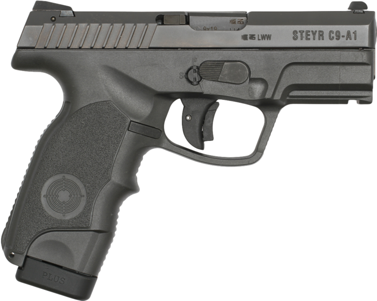 Steyr S9-A1 semi-automatic pistol